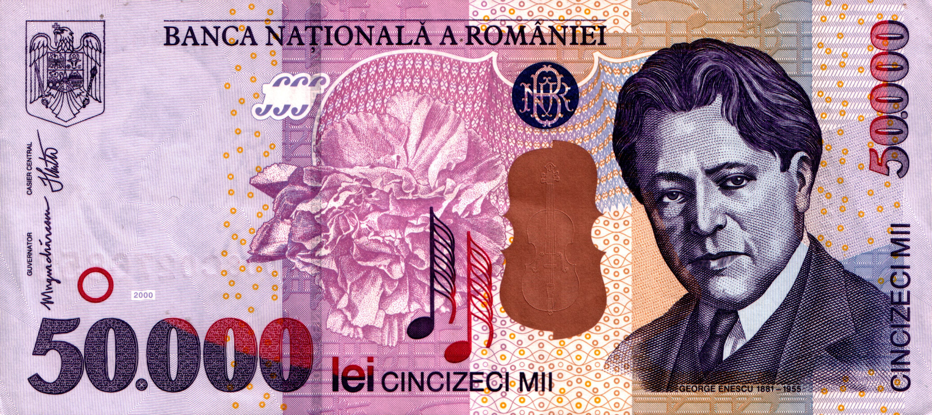 50 000 Romanian leu from 2000 - obverse